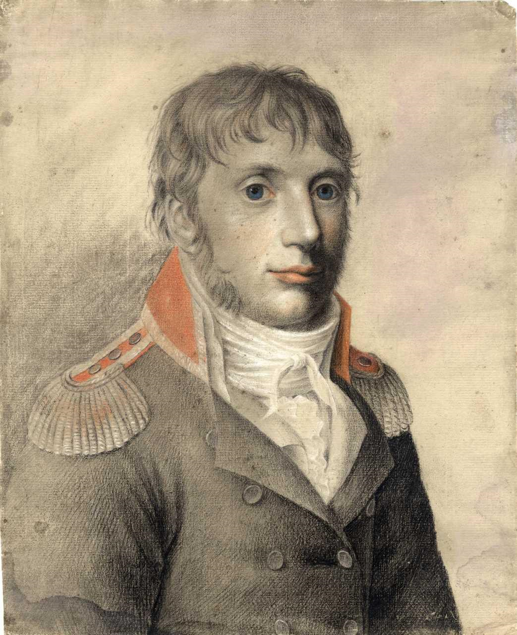 Peder Frederik Wulff (1774-1842), Danish navel officer